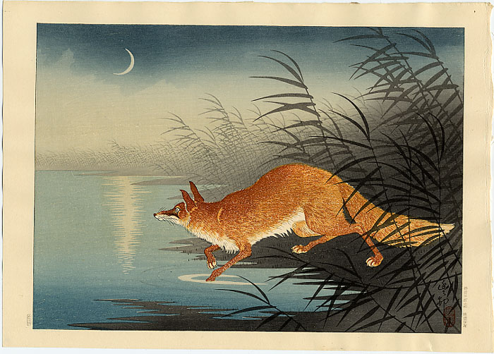 Work by Ohara Koson